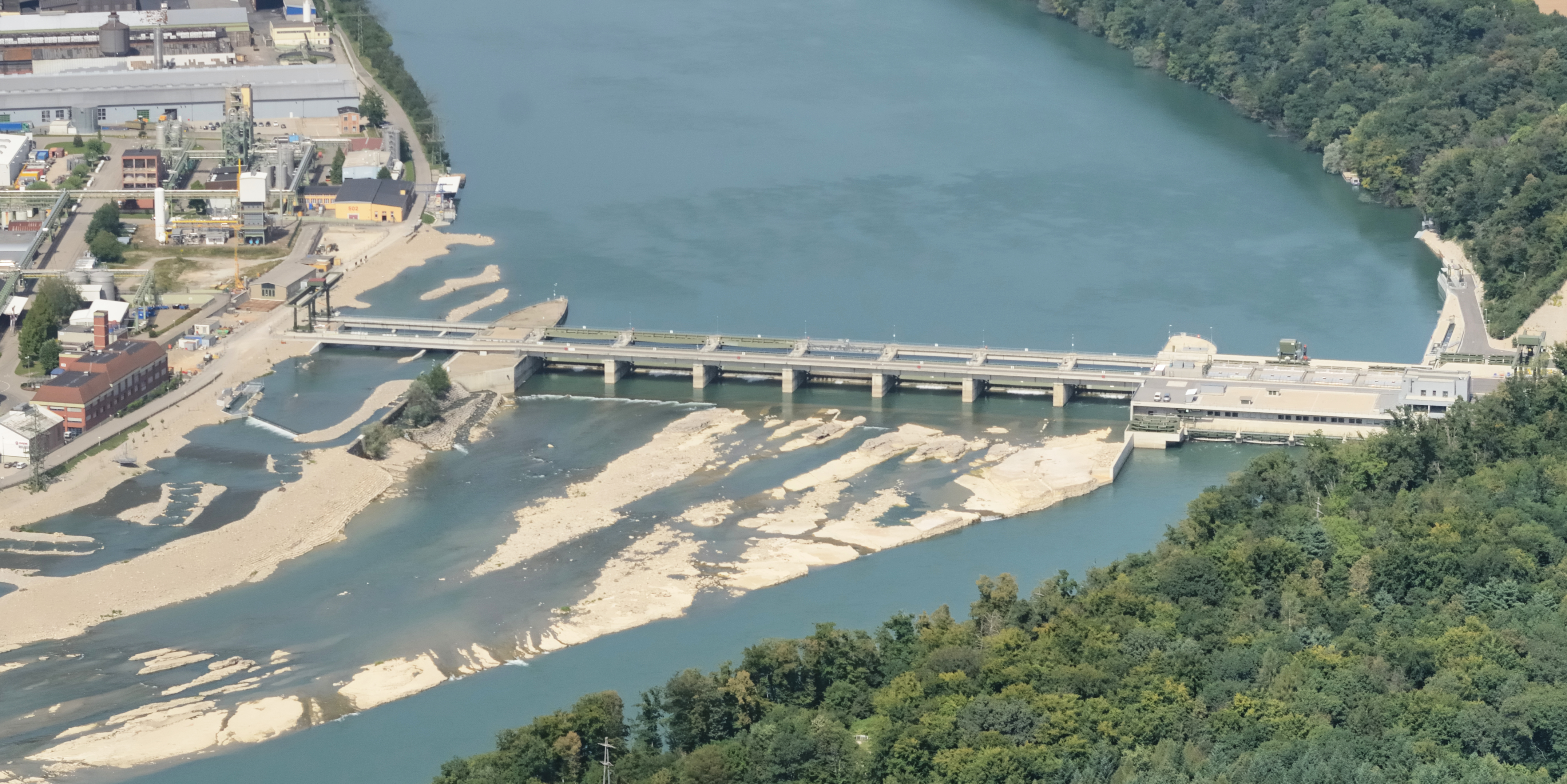 aerial view of the new hydroelectric power plant in Rheinfelden Rheinfelden